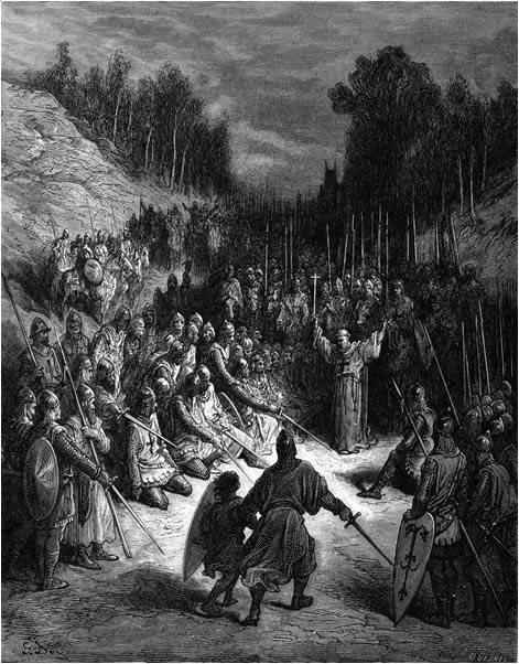 Peter the Hermit